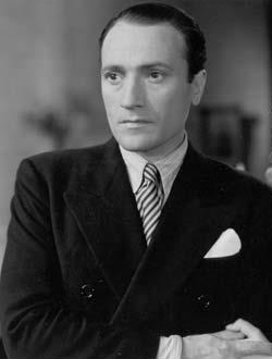 Roberto Bordoni-actor